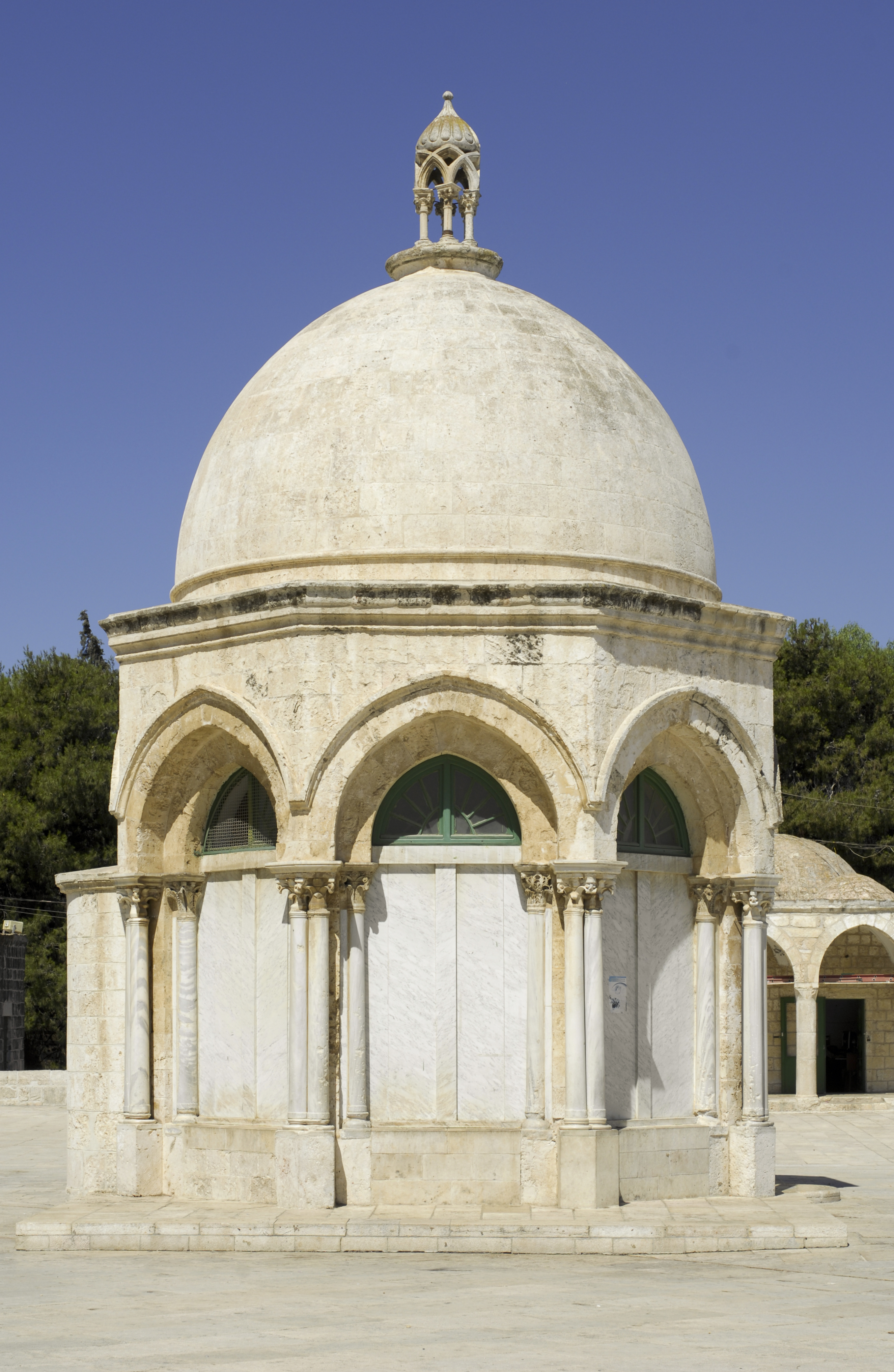 The Dome of the Ascension (Arabic: قبة المعراج) was constructed to commemorate the prophet Muhammad's journey to heaven.